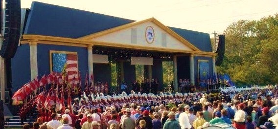 The University of Louisville Marching Band at the 2008 Ryder Cup Opening Ceremony